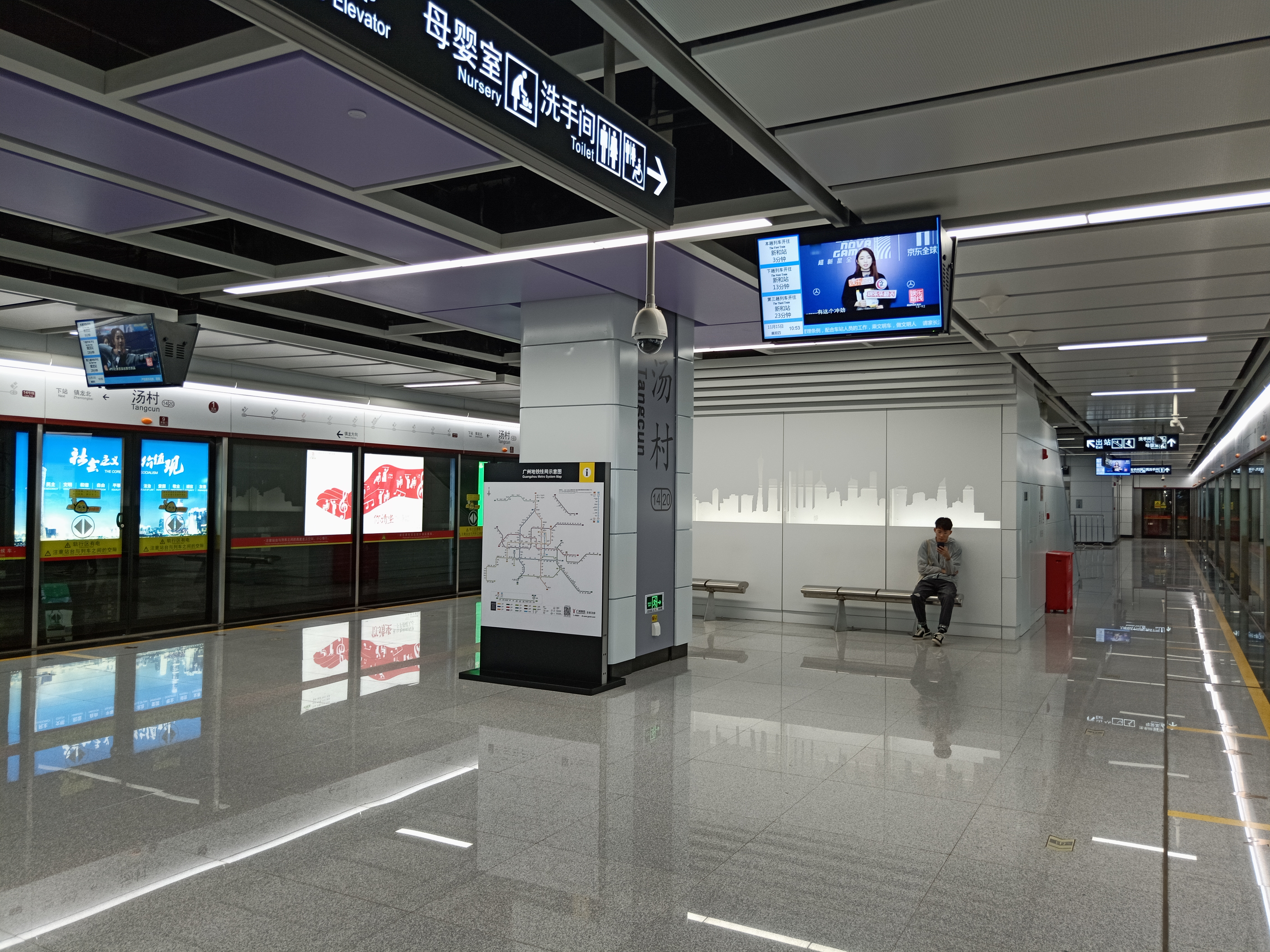 Station Platform for Tangcun Station in Guangzhou Metro.